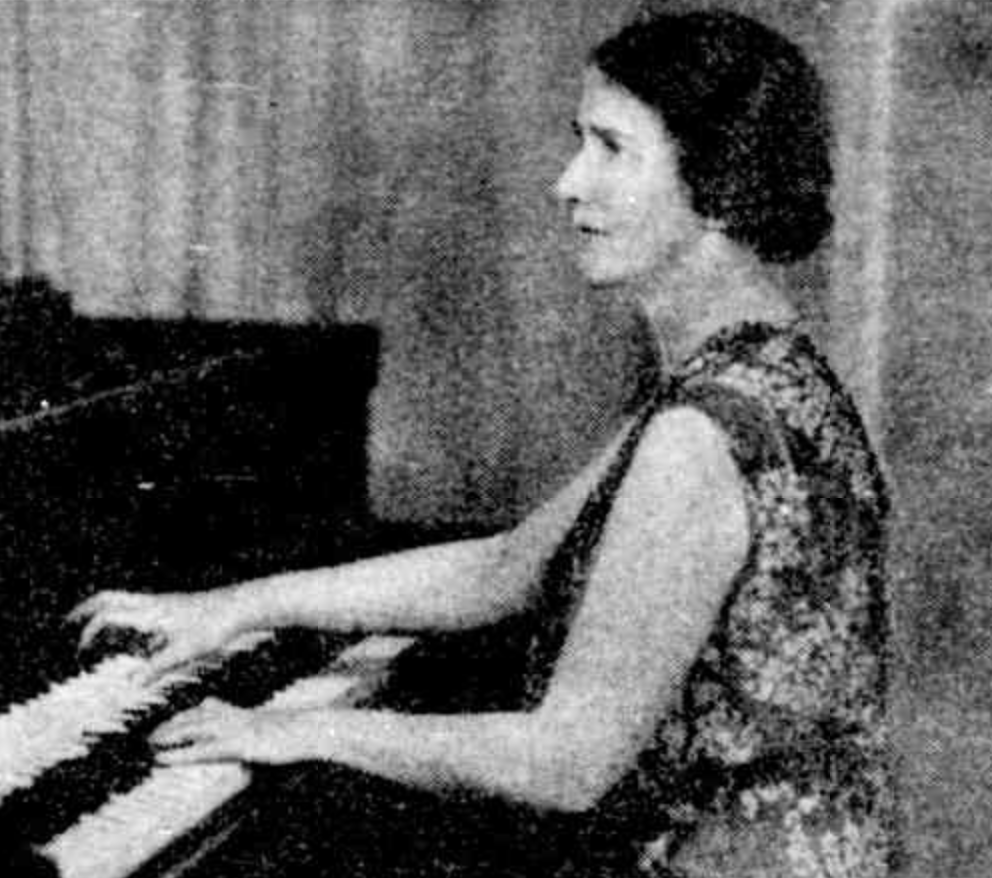 Winifred Charlotte Hillier Crosse Burston (1889-1976), known as Winifred Burston, Australian concert pianist and teacher at Sydney Conservatorium of Music